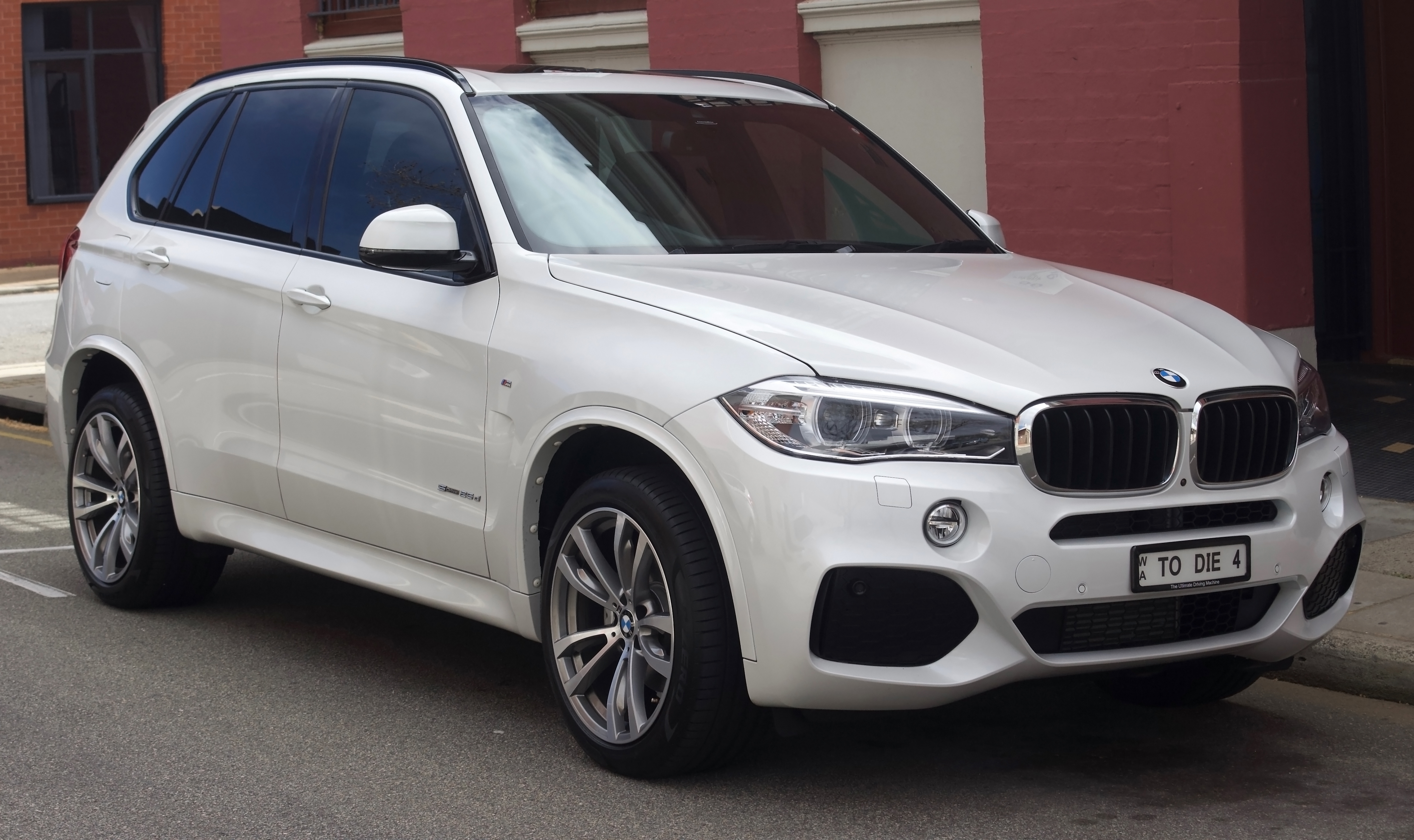 2013-2018 BMW X5 (F15) sDrive25d wagon. Photographed in Fremantle, Western Australia, Australia.